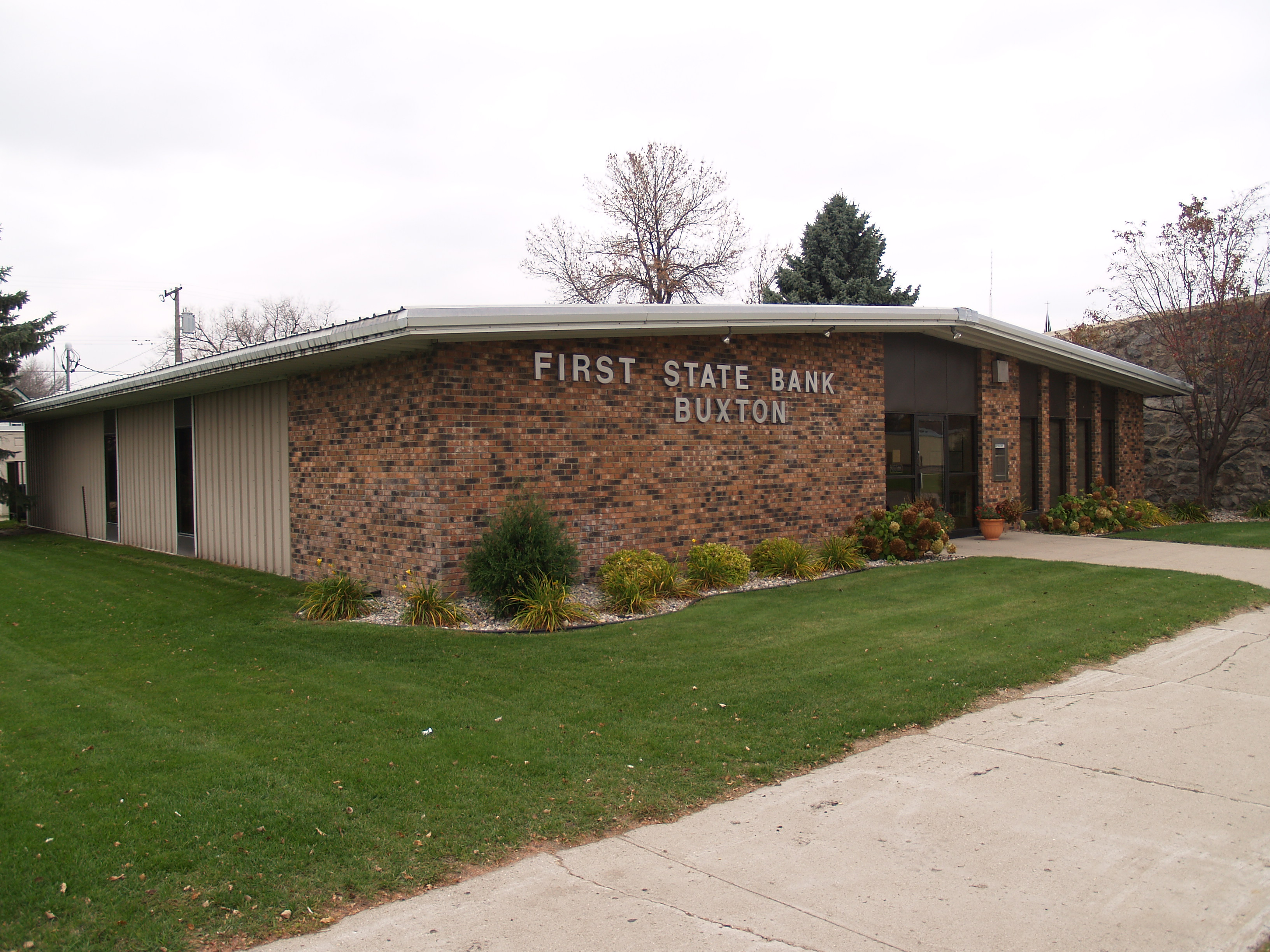 The First State Bank of Buxton in Buxton, North Dakota, which is listed on the National Register of Historic Places.